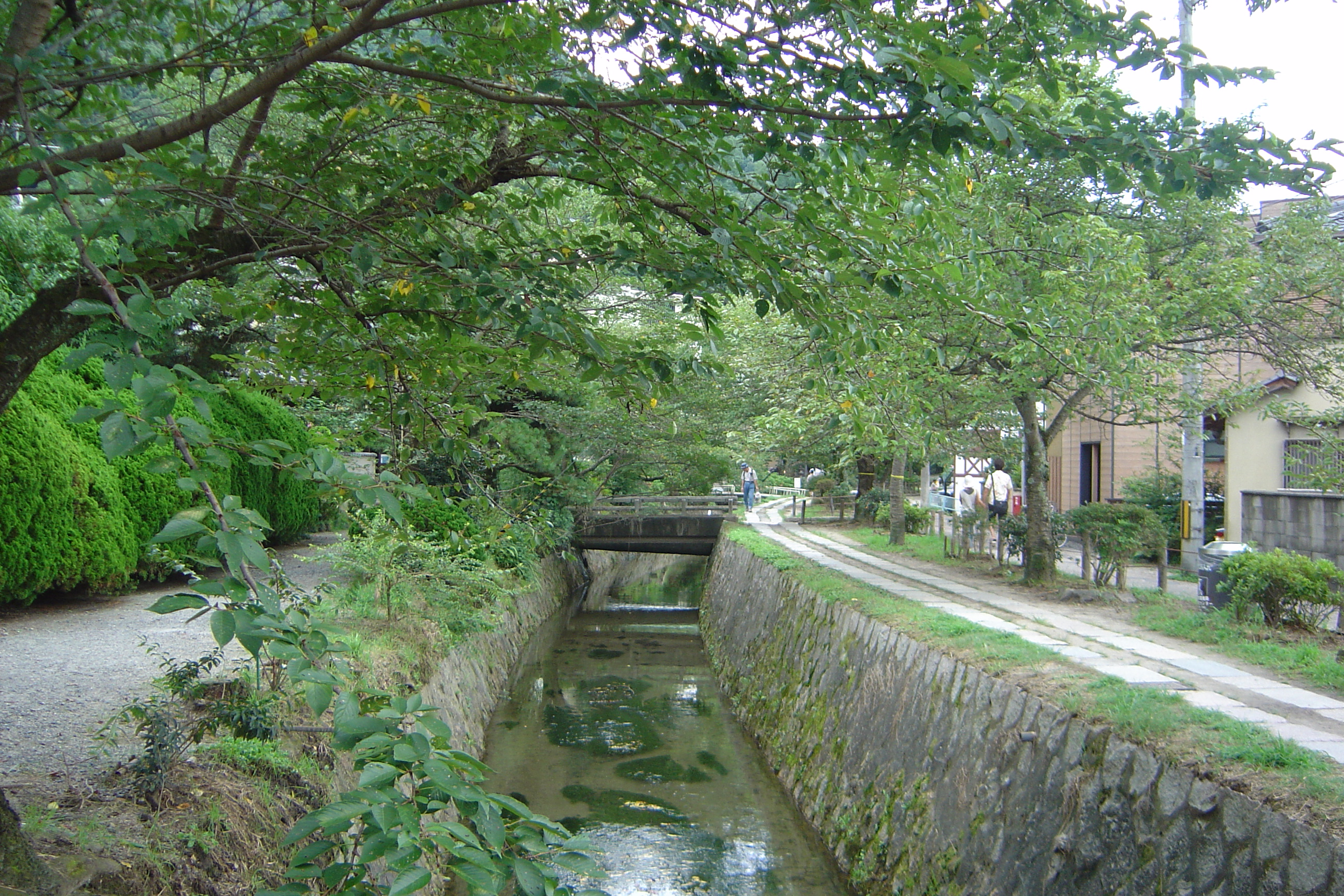 the philosophers' walk in Kyōto, Japan